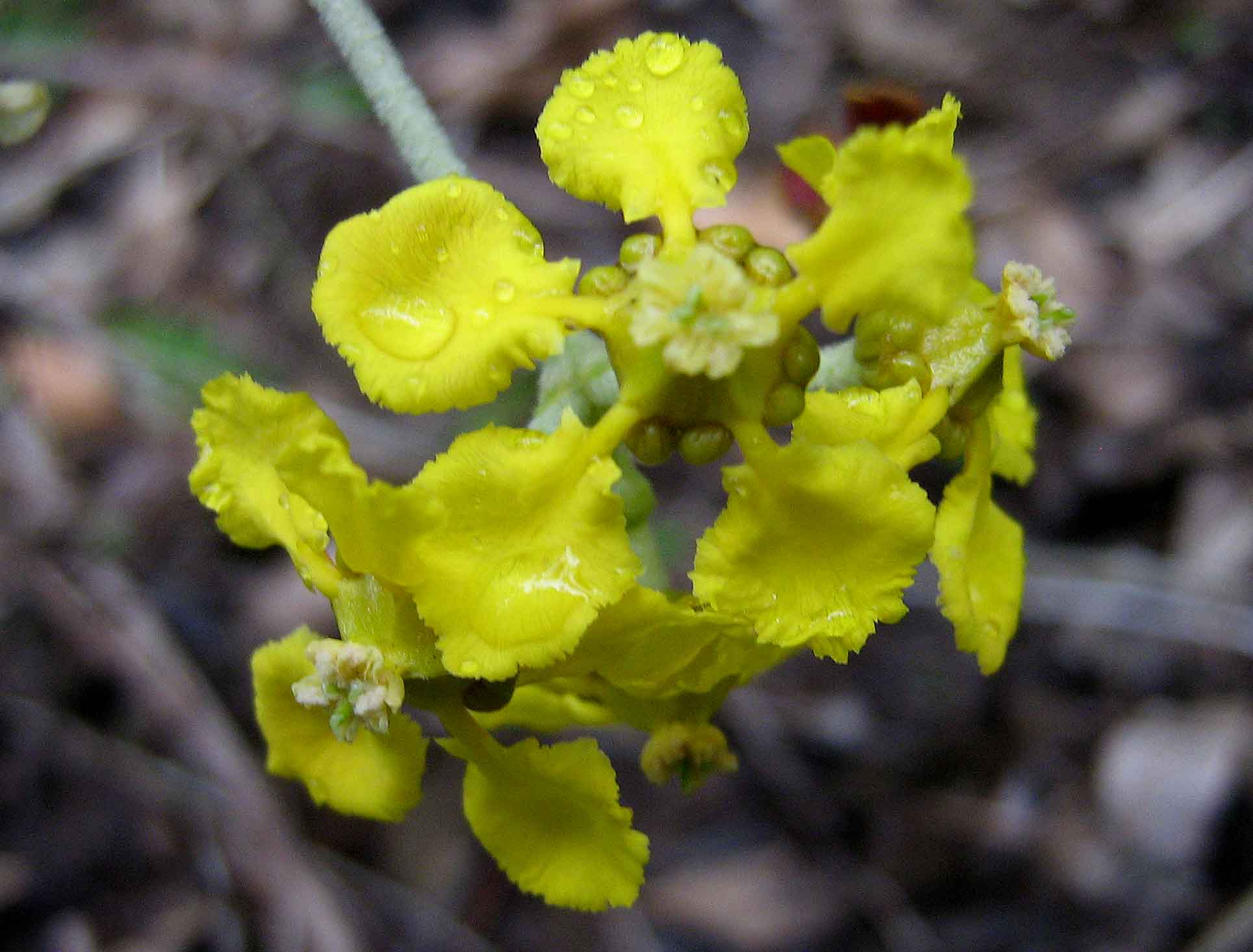 Newly-opened flowers.